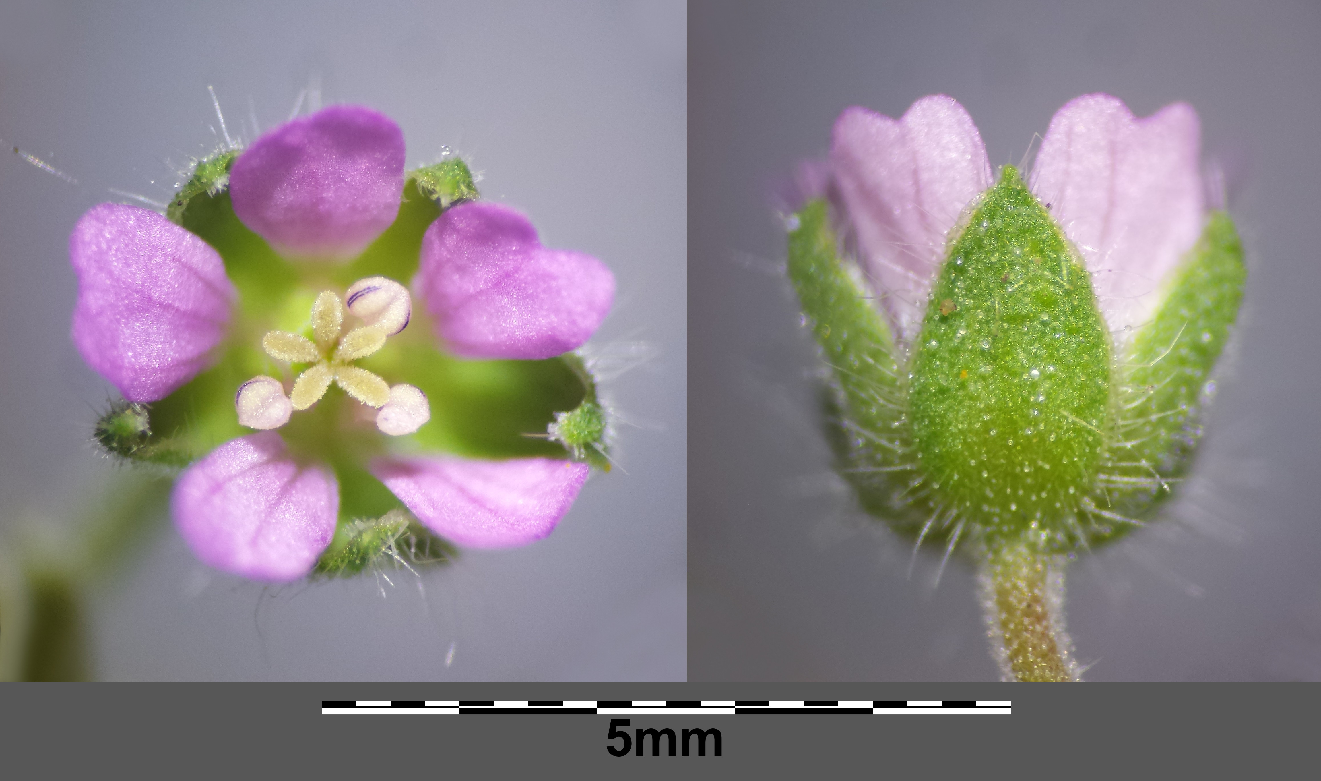 Flower Taxonym: Geranium pusillum ss Fischer et al. EfÖLS 2008 ISBN 978-3-85474-187-9 Location: Eichleiten to the North of Enzersfeld, district Korneuburg, Lower Austria - ca. 250 m a.s.l. Habitat: vineyard